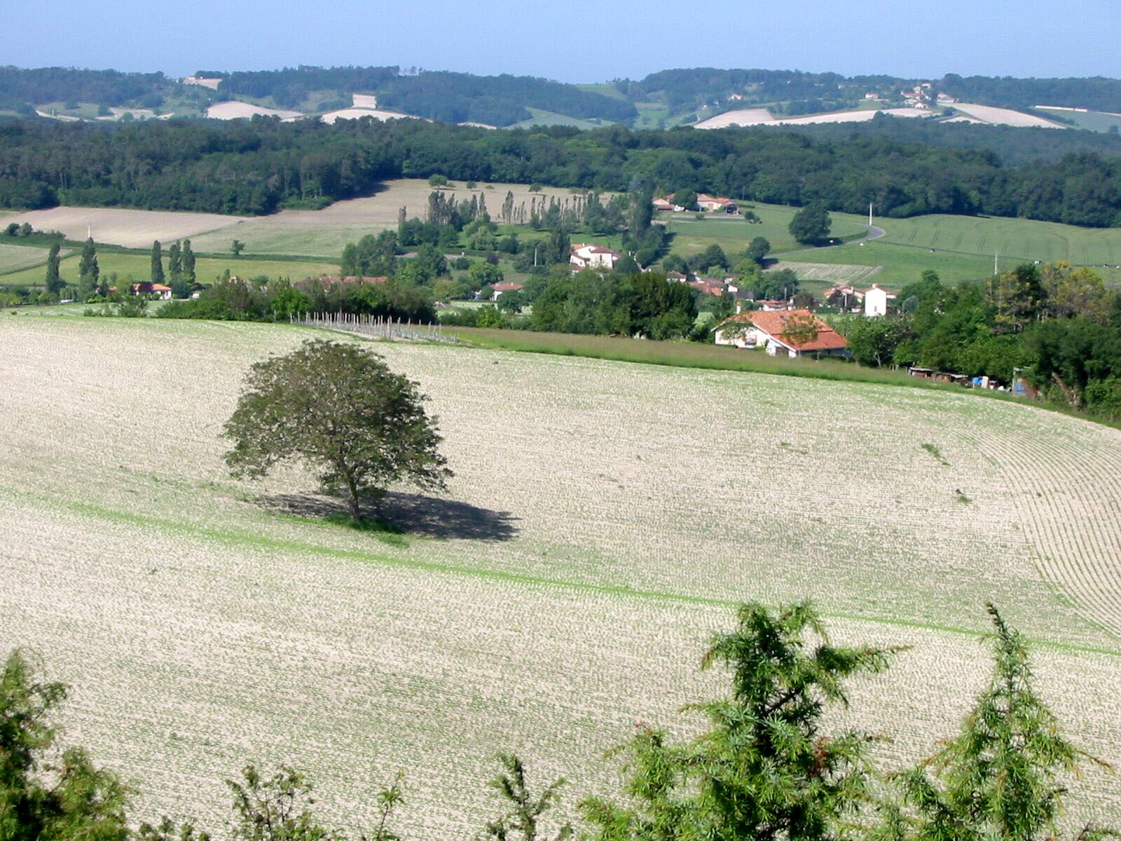 landscape of Montmorélien (Cretaceous Campanian), Charente, SW France